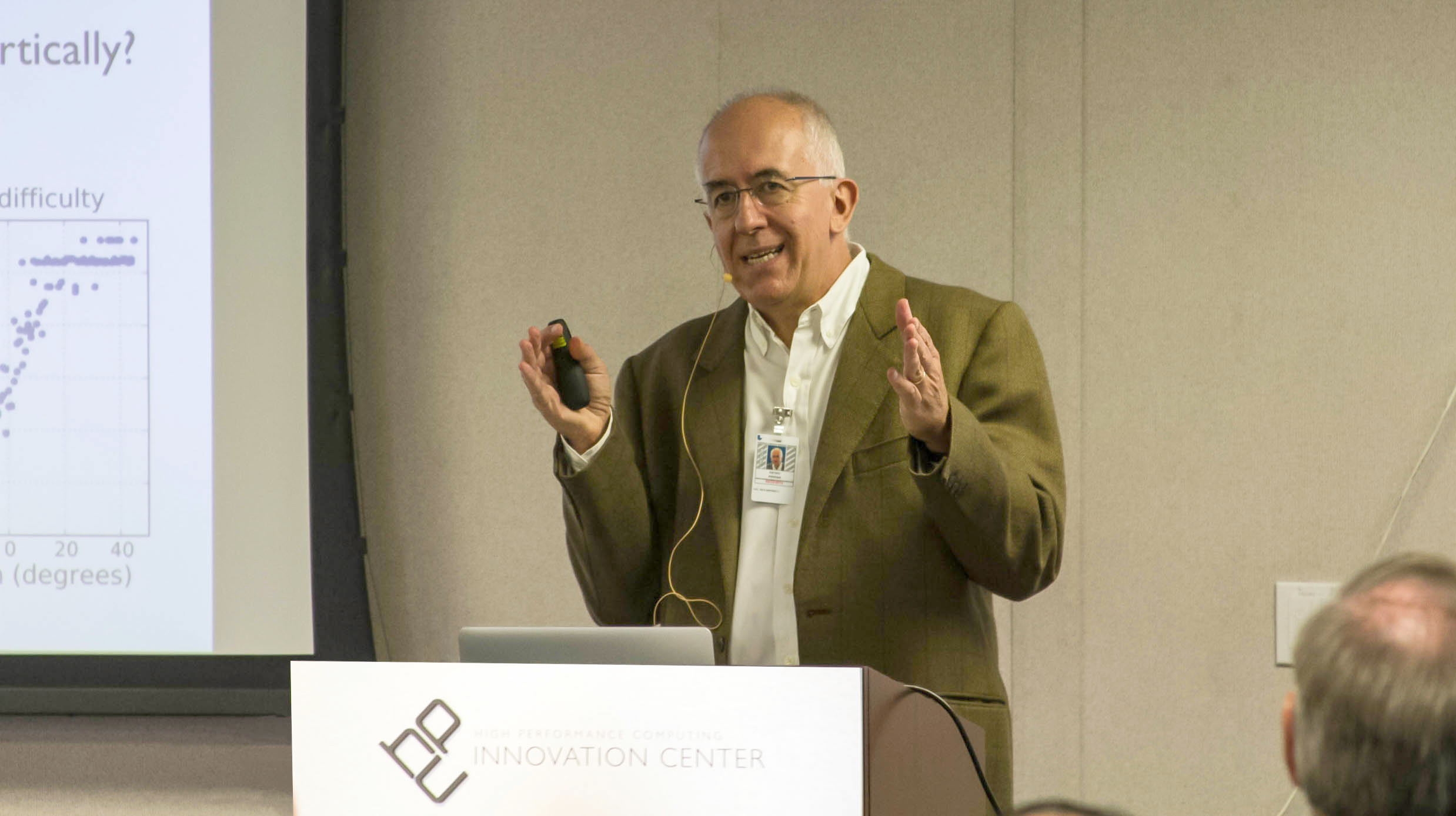 Pietro Perona presenting at the 18th annual Signal and Image Sciences Workshop at Lawrence Livermore National Laboratory.